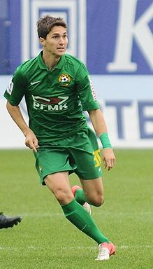 Marco Pizzelli with FC Kuban Krasnodar in 2012.